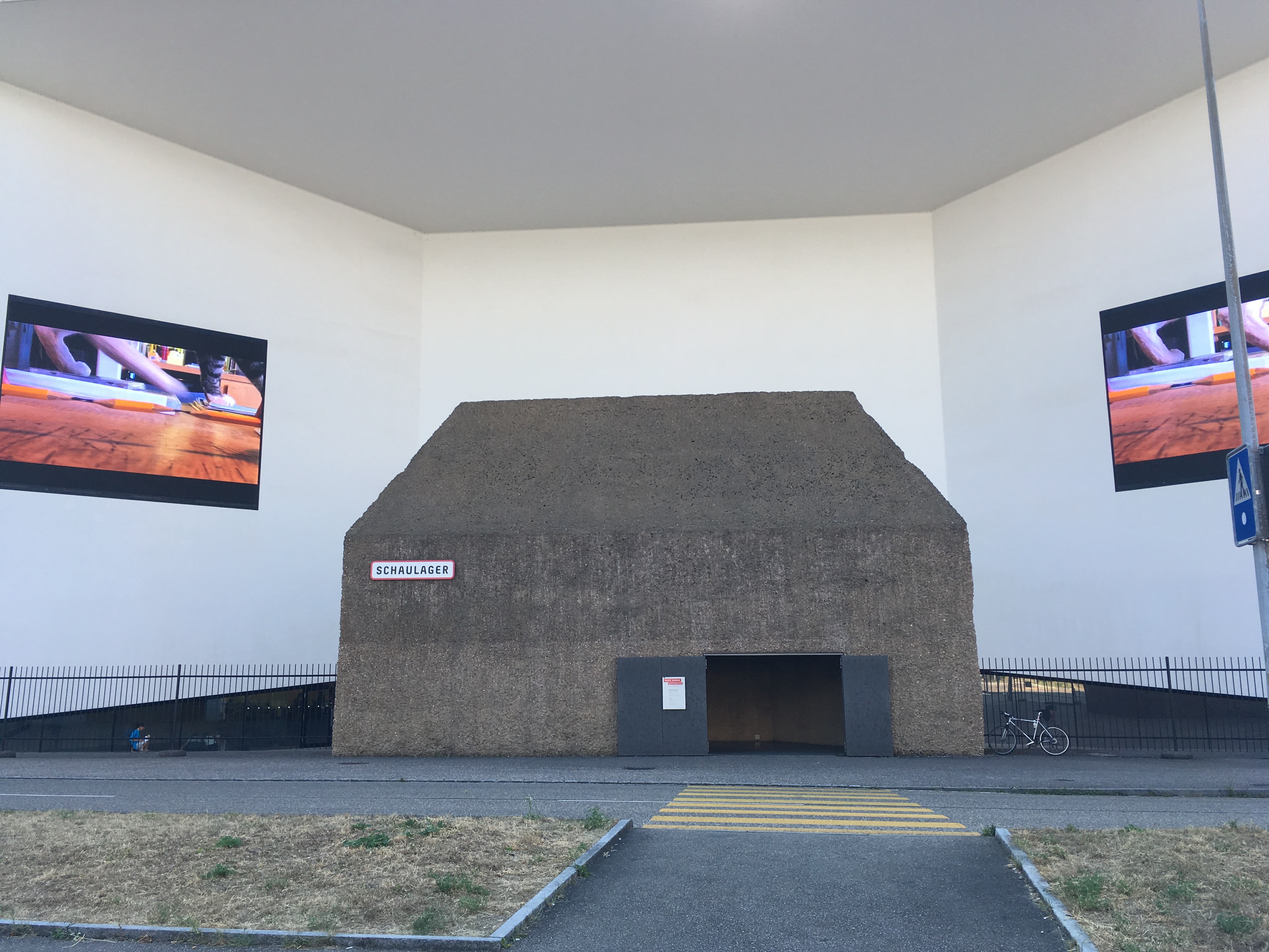 The gatehouse of Schaulager. Work of the American artist Bruce Nauman is screened on the two LED screens.